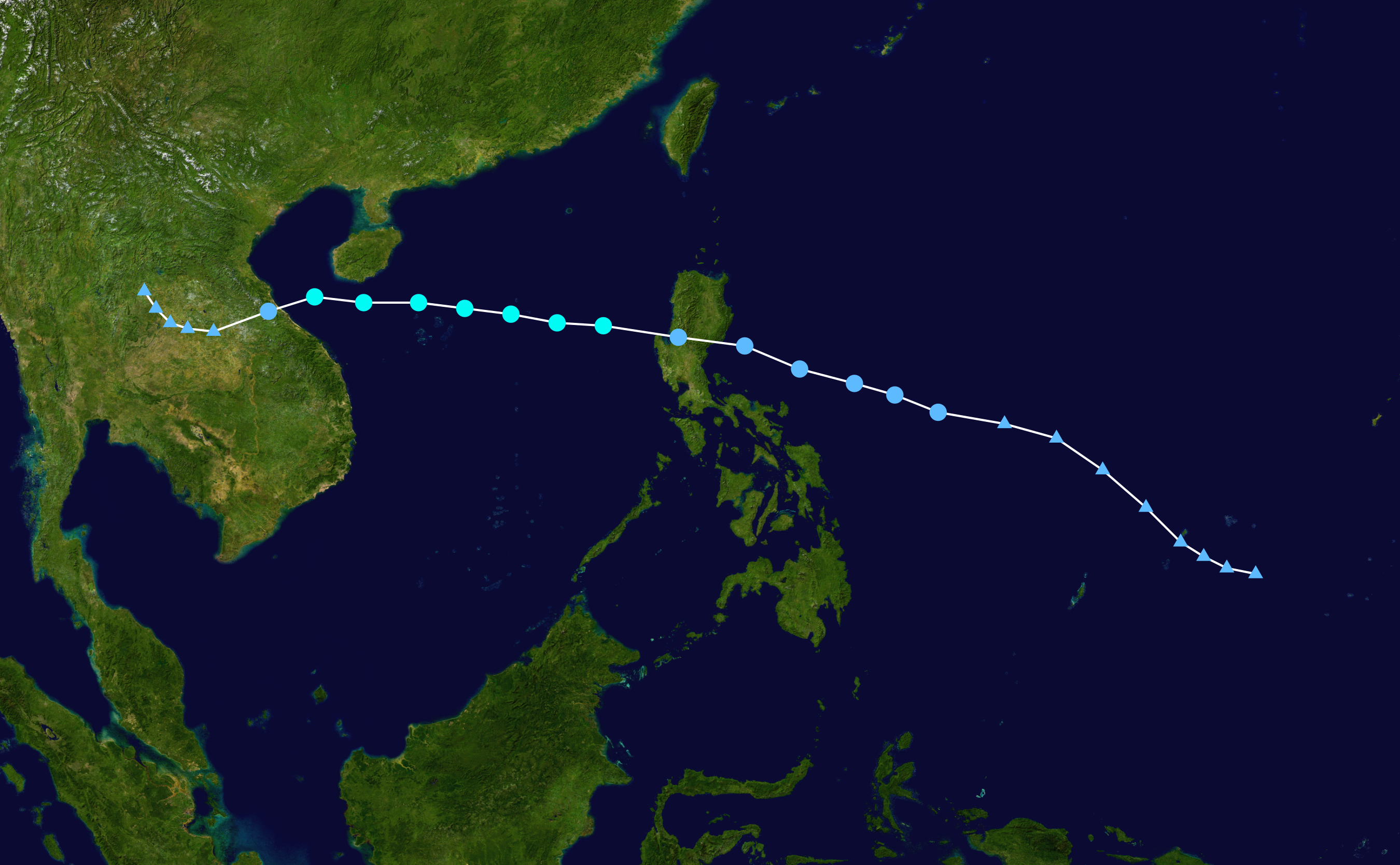 Track map of Tropical Storm Podul of the 2019 Pacific typhoon season. The points show the location of the storm at 6-hour intervals. The colour represents the storm's maximum sustained wind speeds as classified in the Saffir–Simpson scale (see below), and the shape of the data points represent the nature of the storm, according to the legend below. Saffir–Simpson scale Tropical depression≤38 mph≤62 km/h Category 3111–129 mph178–208 km/h Tropical storm39–73 mph63–118 km/h Category 4130–156 mph209–251 km/h Category 174–95 mph119–153 km/h Category 5≥157 mph≥252 km/h Category 296–110 mph154–177 km/h Unknown Storm type Tropical cyclone Subtropical cyclone Extratropical cyclone / Remnant low / Tropical disturbance / Monsoon depression